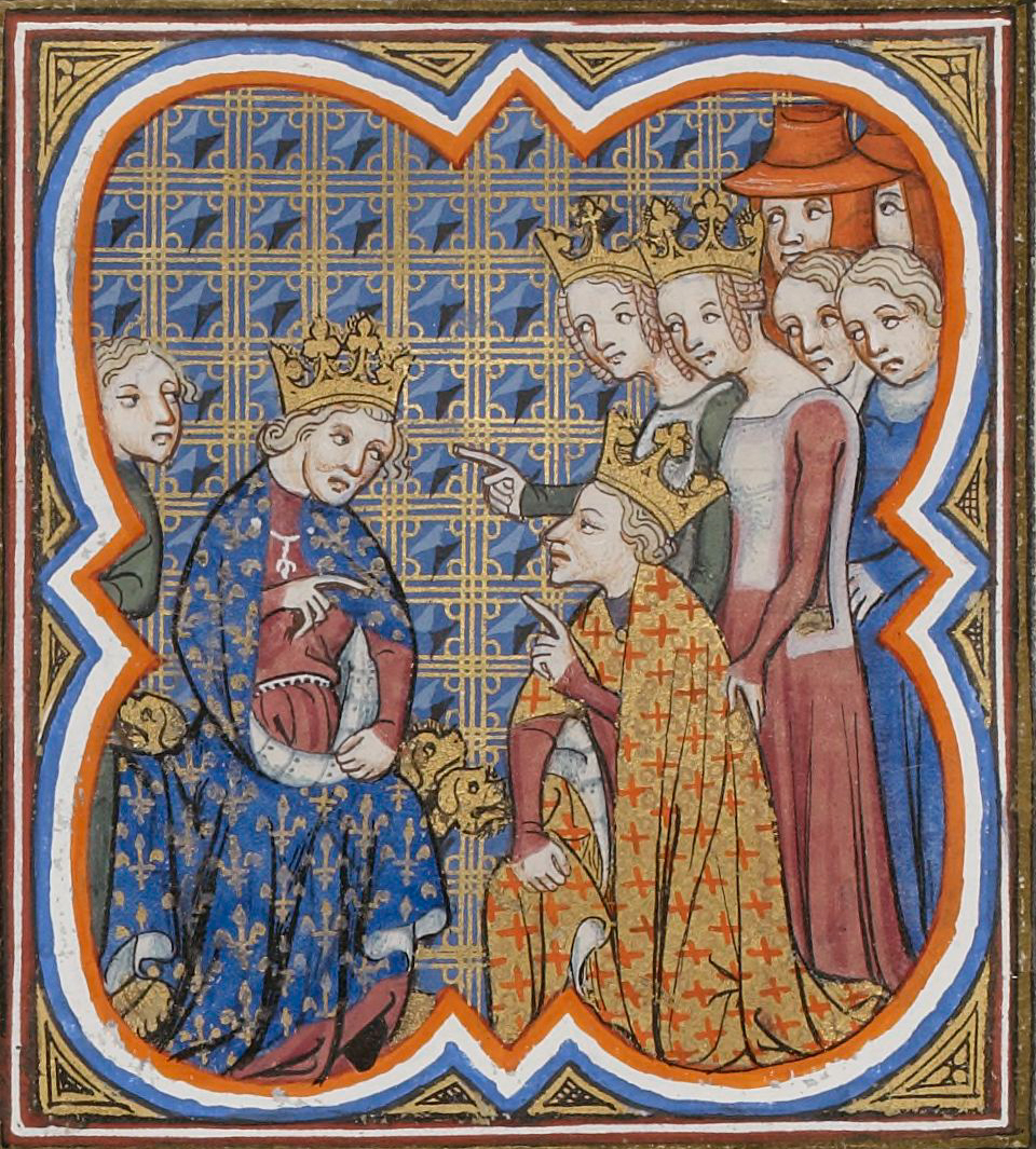 Charles the Bad and John the Good